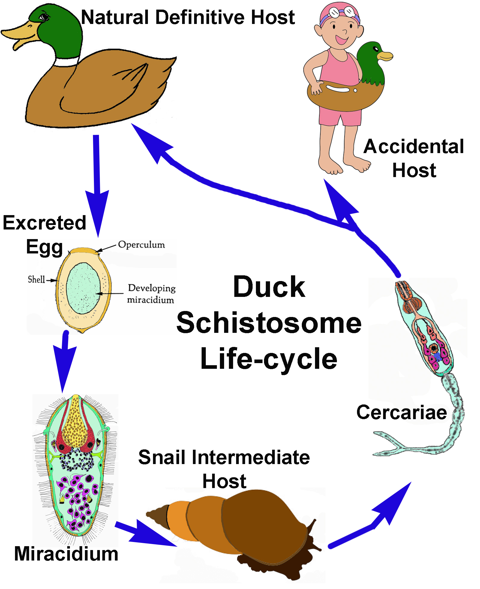 Duck Schistosome Life Cycle